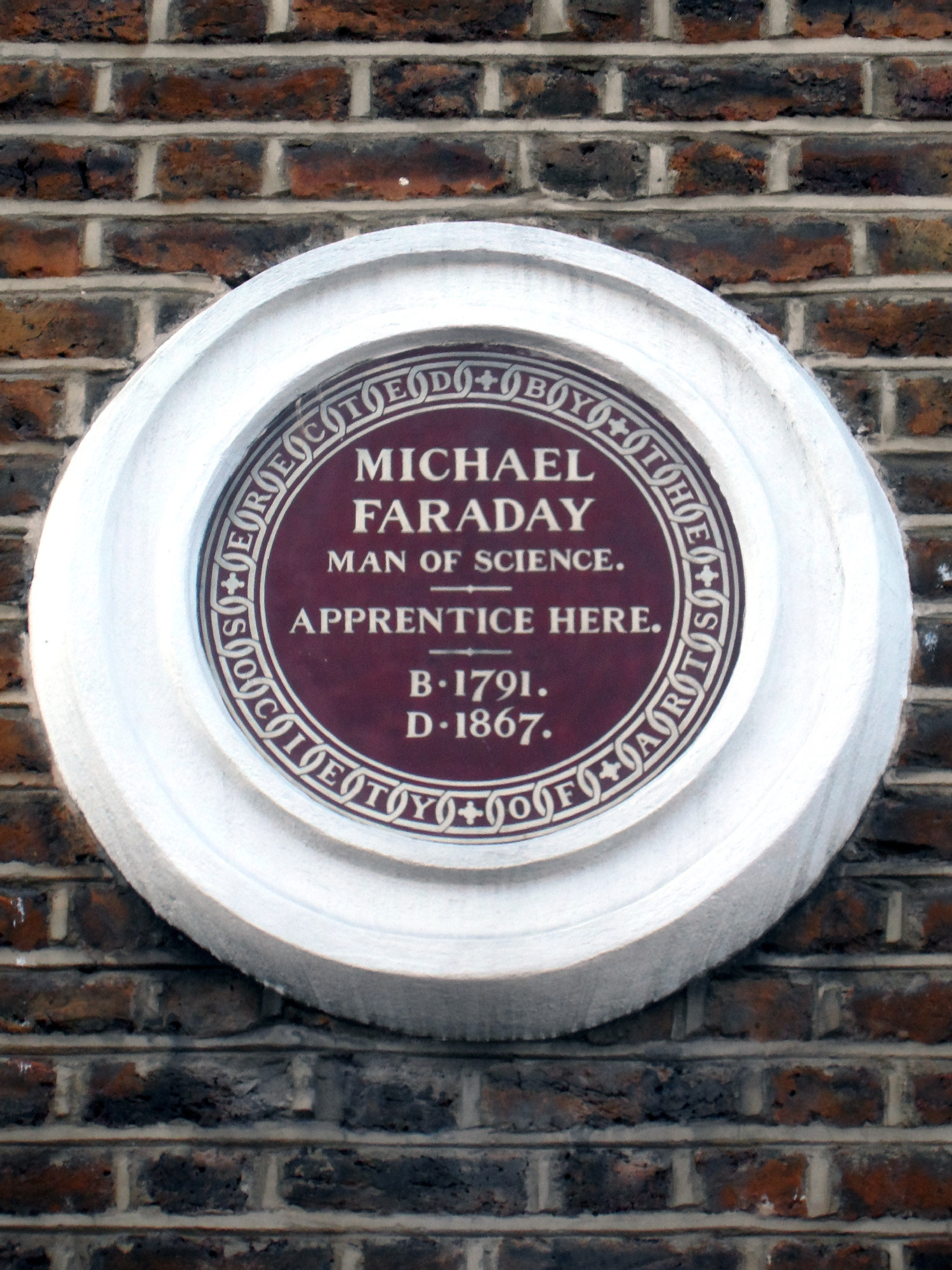 Brown plaque with SOA border erected in 1876 by (Royal) Society of Arts at 48 Blandford Street, Marylebone, London W1U 7HU, City of Westminster